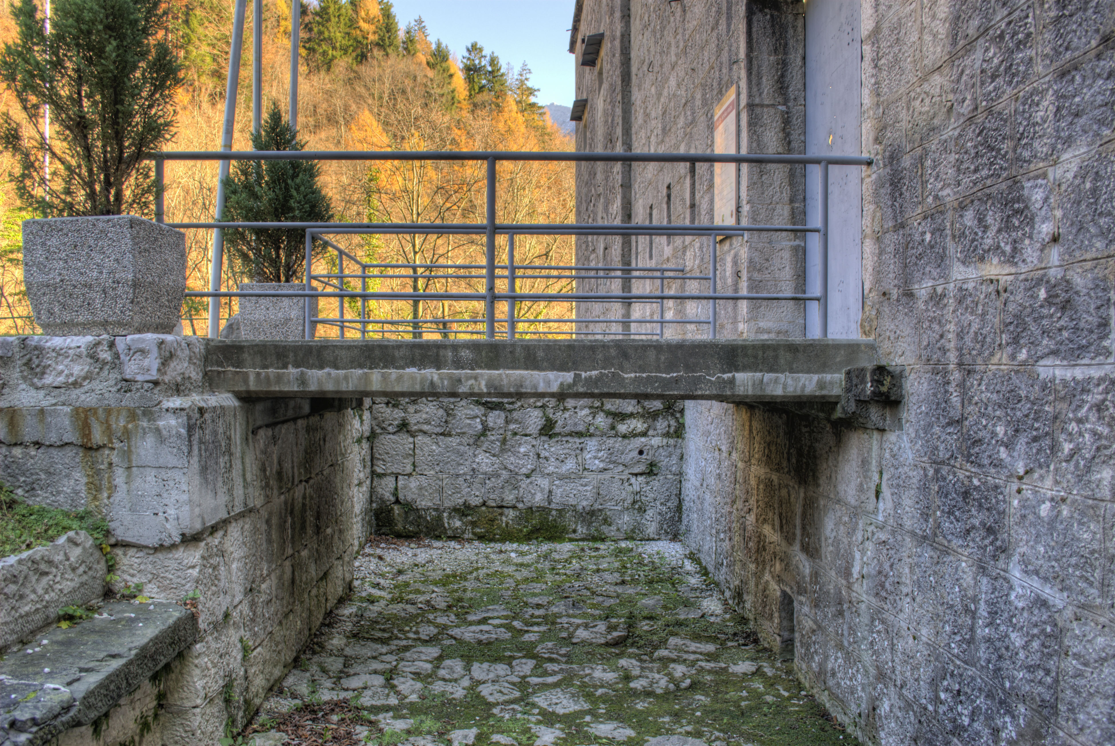 Entrance to Fort Kluže near Bovec, Slovenia